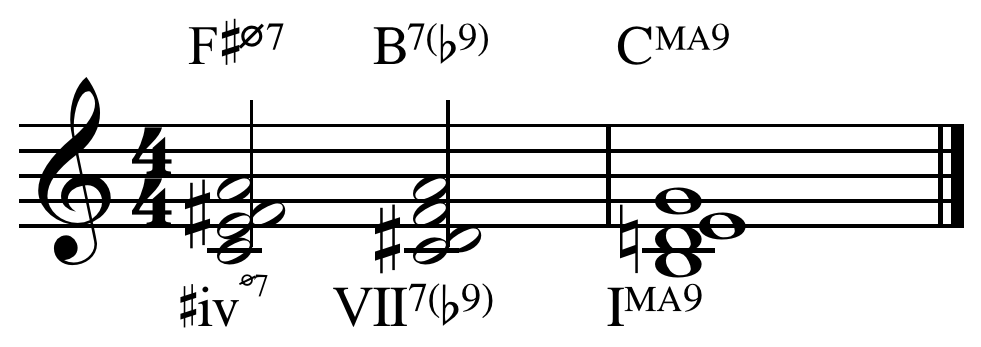 Backdoor progression to iii, with I in place of iii: ♯ivø7-VII7(♭9)-IMA9.